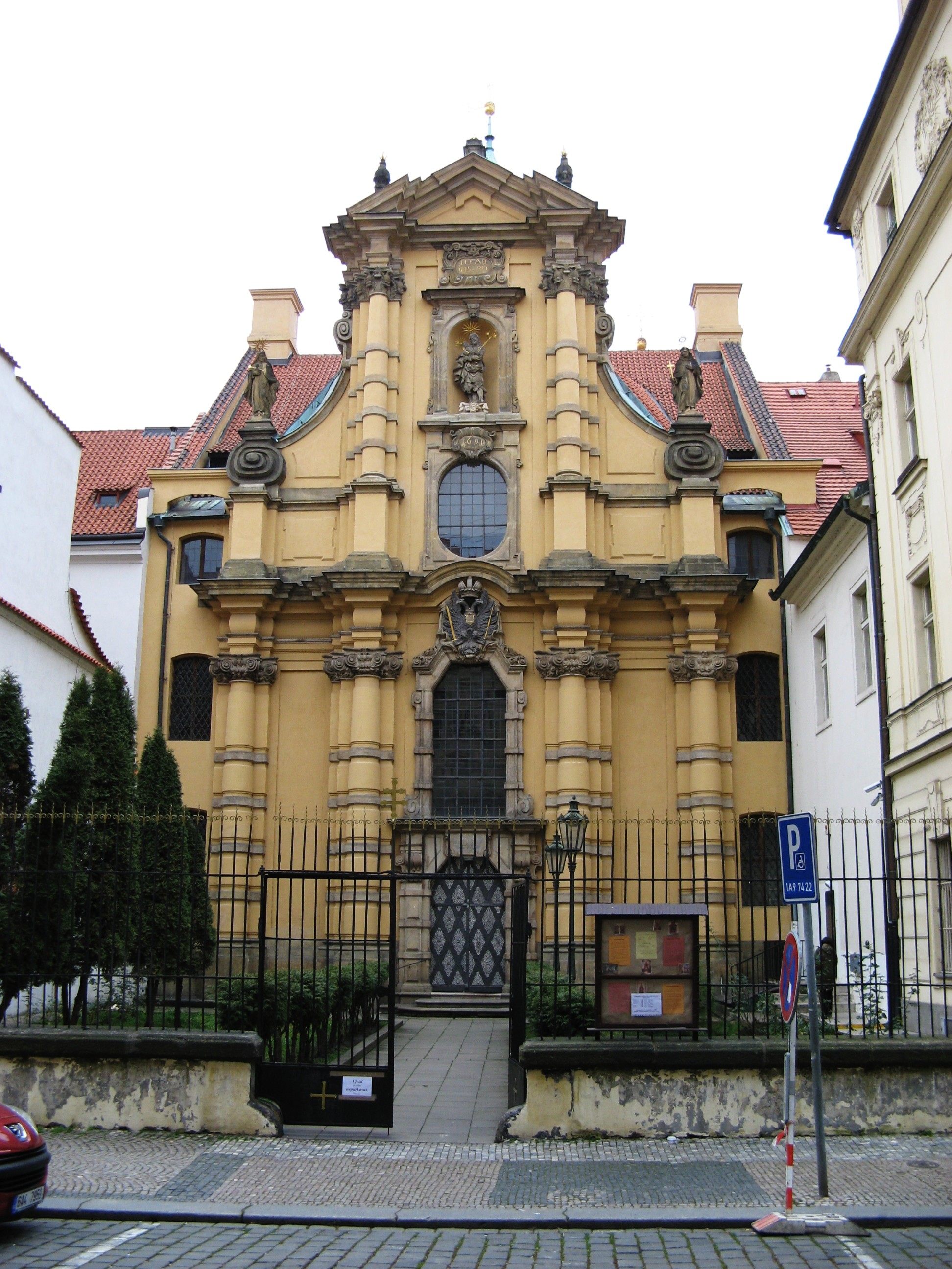 Church of st. Joseph in Malá Strana, Josefská street